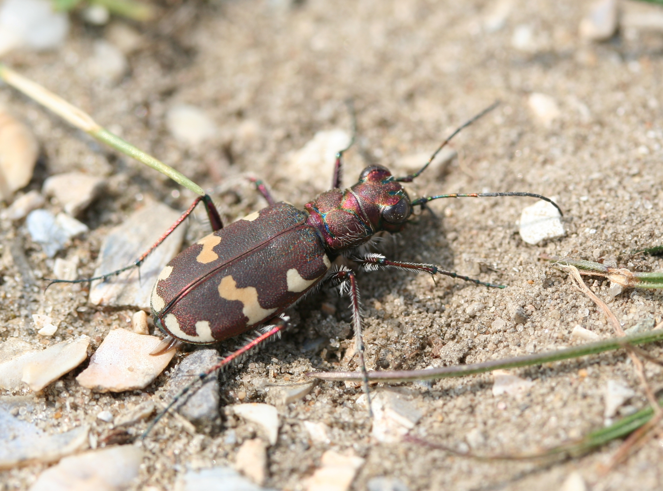 Cicindela hybrida 6 may 2006 IJmuiden, the Netherlands